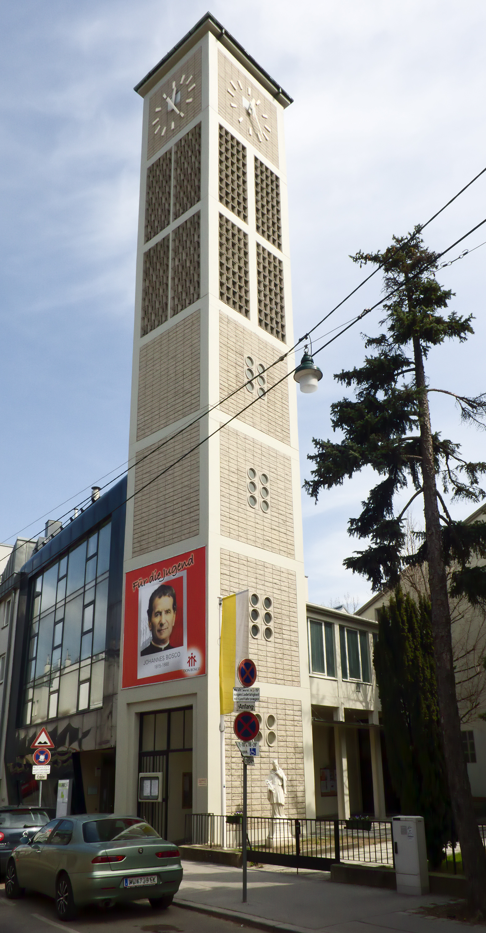 Church Unter St. Veiter Pfarrkirche in Vienna Hietzing